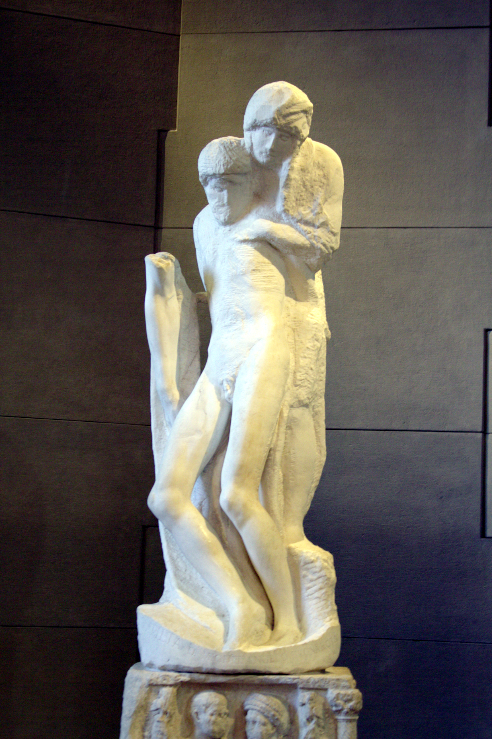 Museo d'arte antica (Milan)